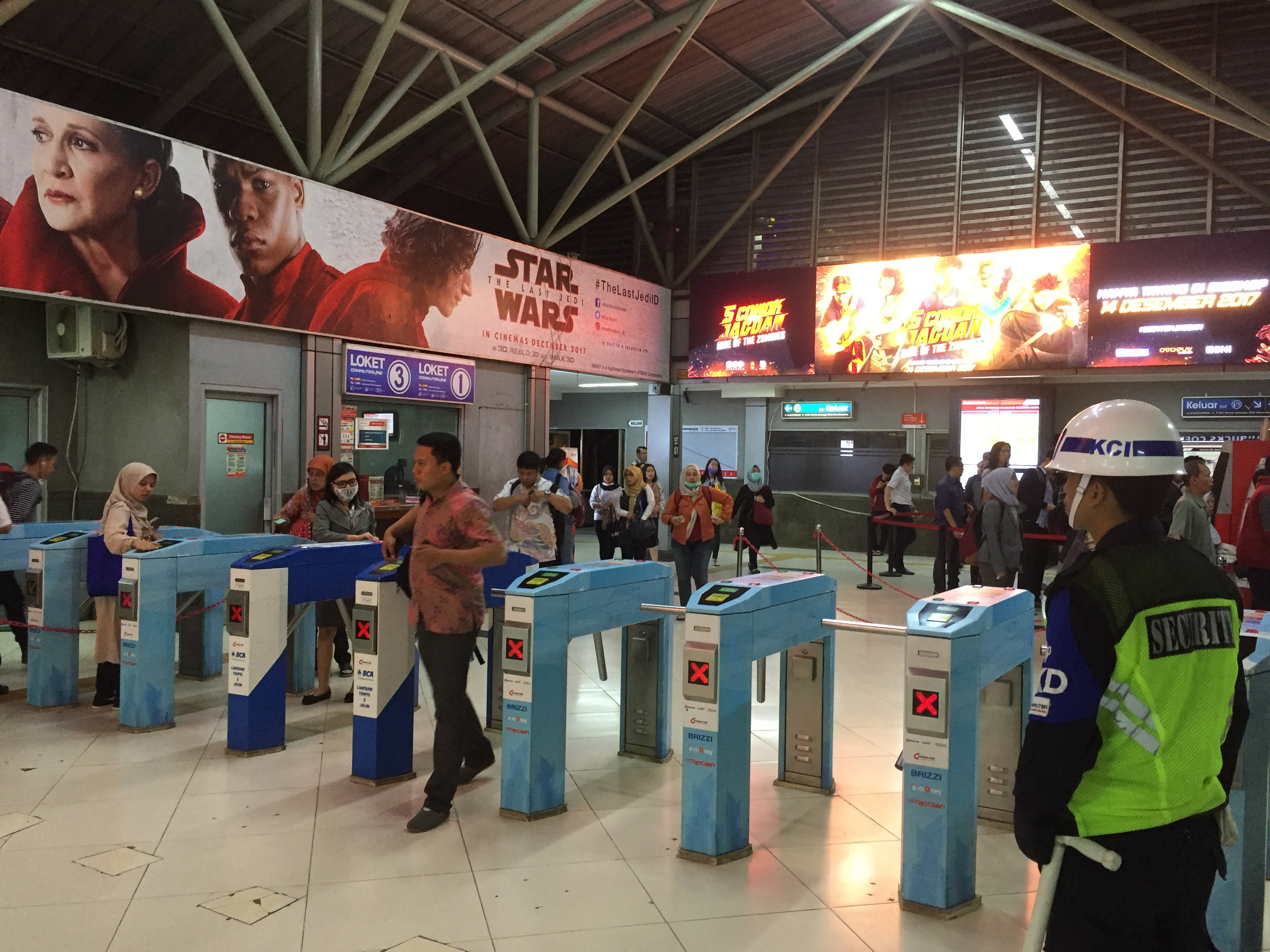 Sudirman station is one of the busiest commuter line stations in Jakarta, located nearby Sudirman street